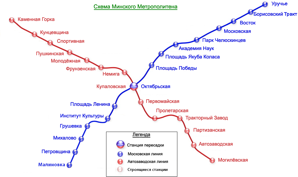 Map of Minsk metro as of November 2007 November 2012